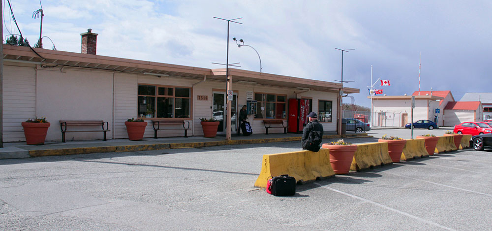 Is that... unwatch baggage? 110415-46